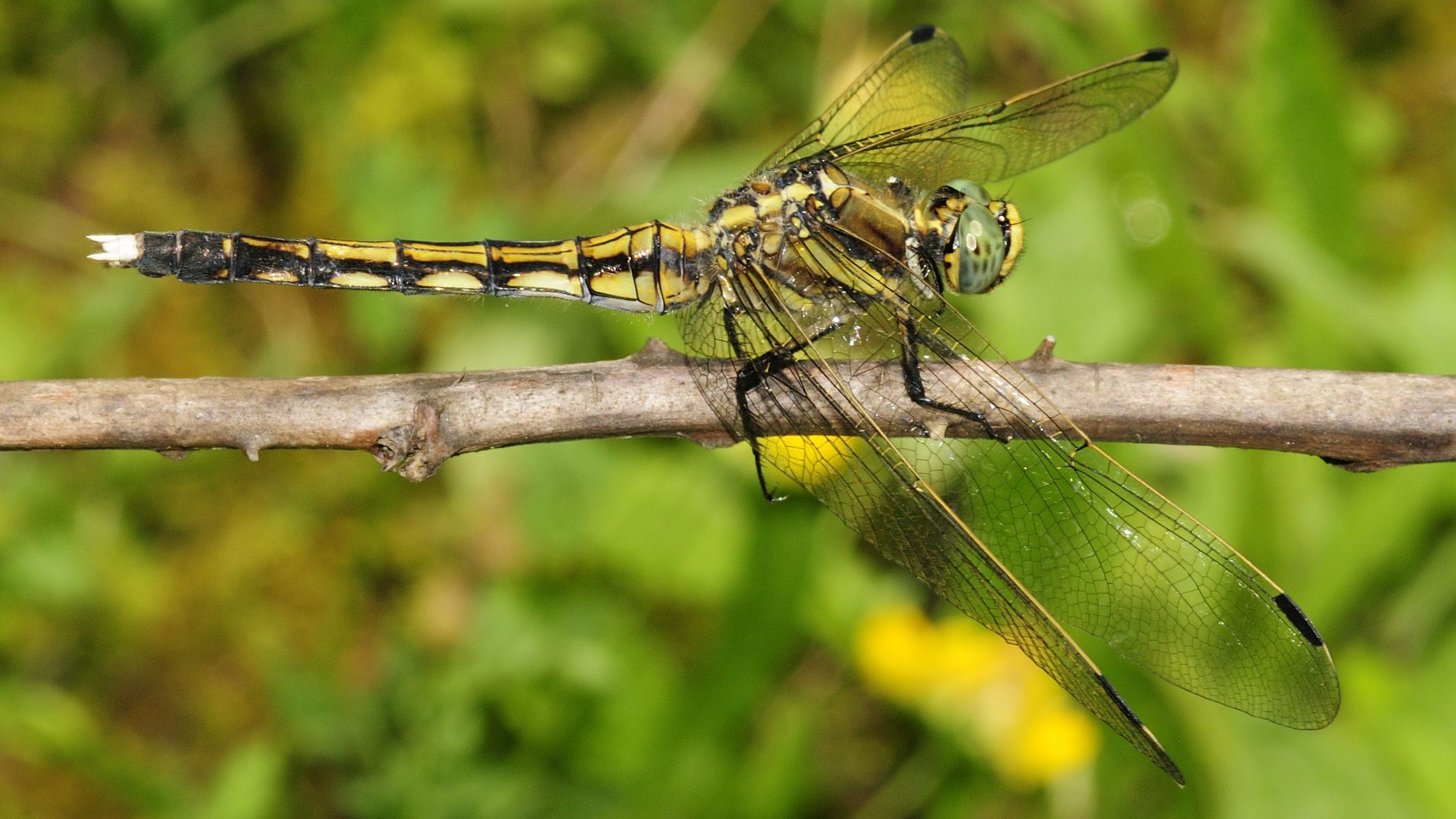 Please report references to .